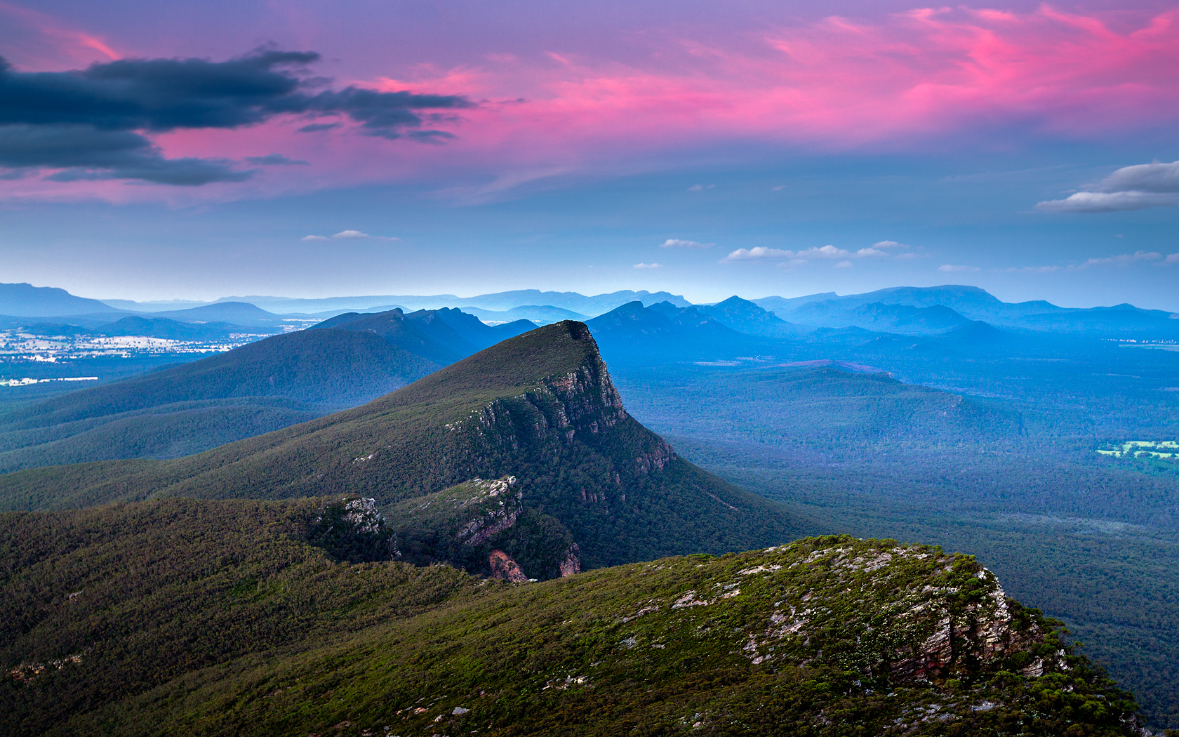 Grampians National Park, just North of Dunkeld, Victoria.